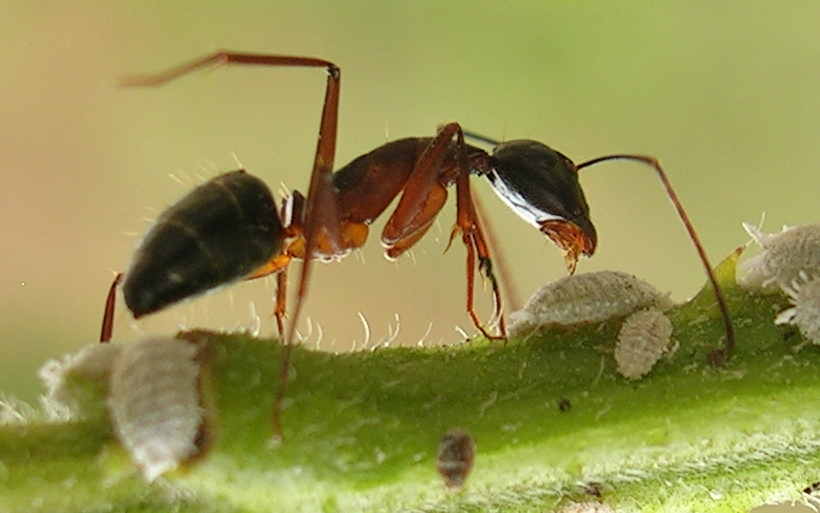 Ant tending scale insects. Camponotus compressus Photo by L. Shyamal